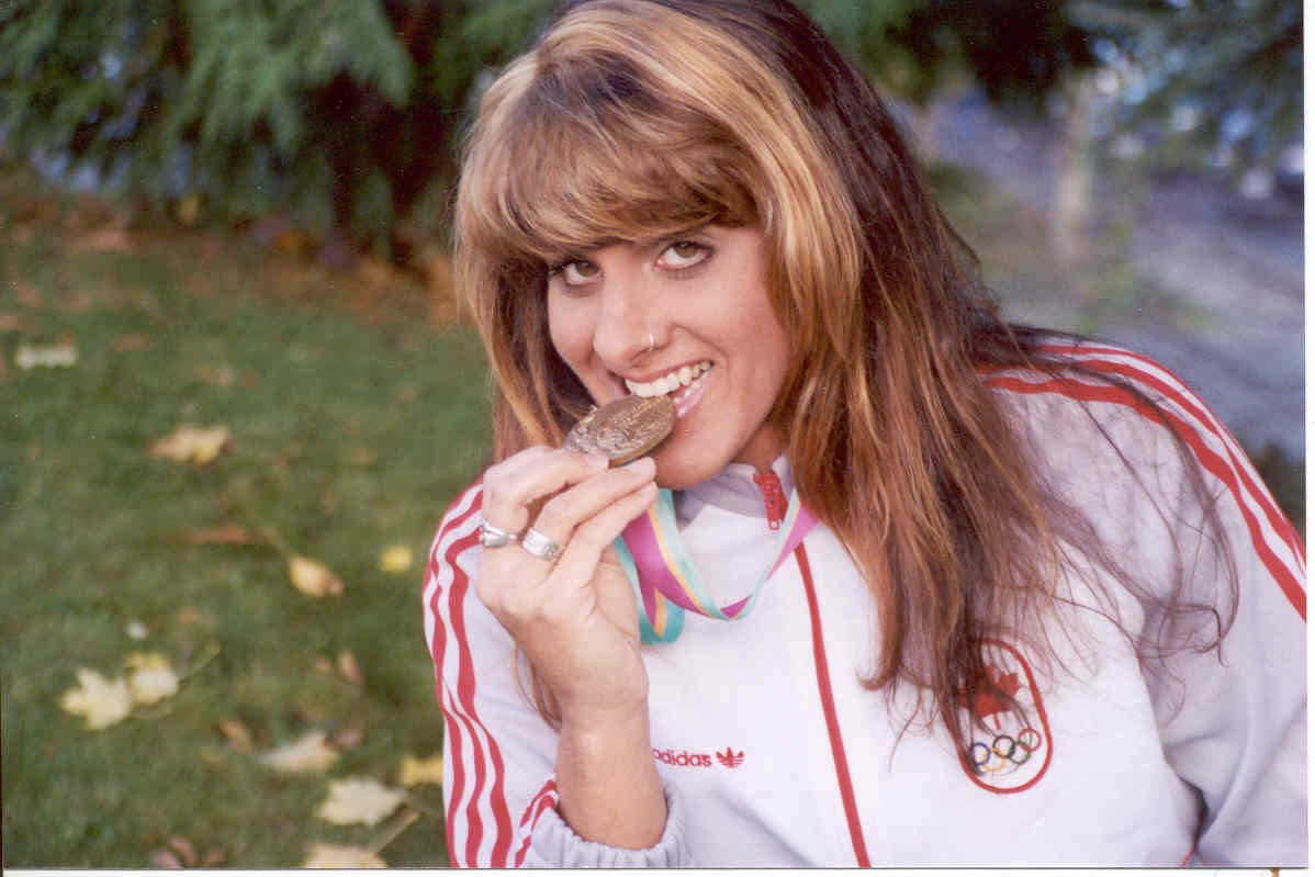 1984 Olympic Games, bronze medallist